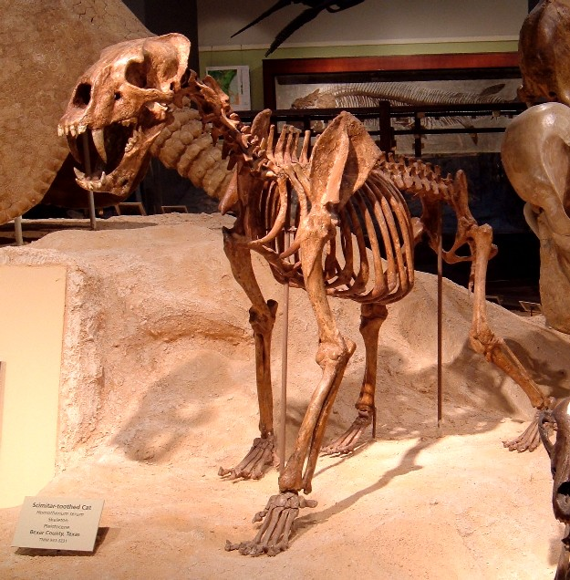 Skeletal mount of Homotherium serum specimen TMM 933-3231. Texas Memorial Museum.